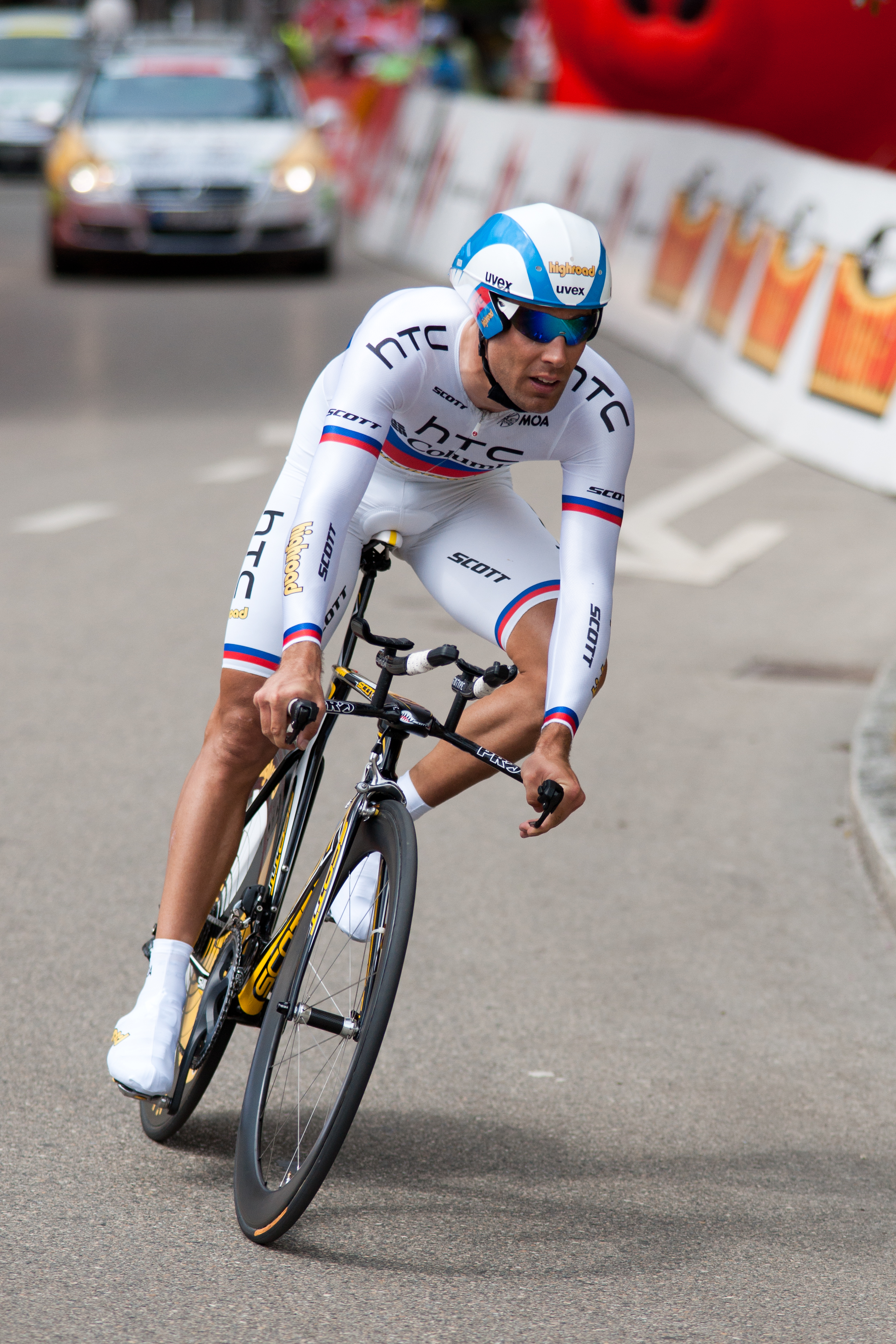 Frantisek Rabon during the 3rd stage of the Tour de Romandie 2010.